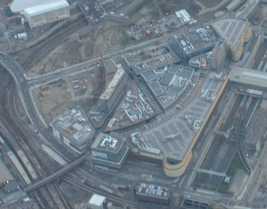 Westfield Stratford City taken by Alex out of a plane window in late June 2011 when construction was nearly complete